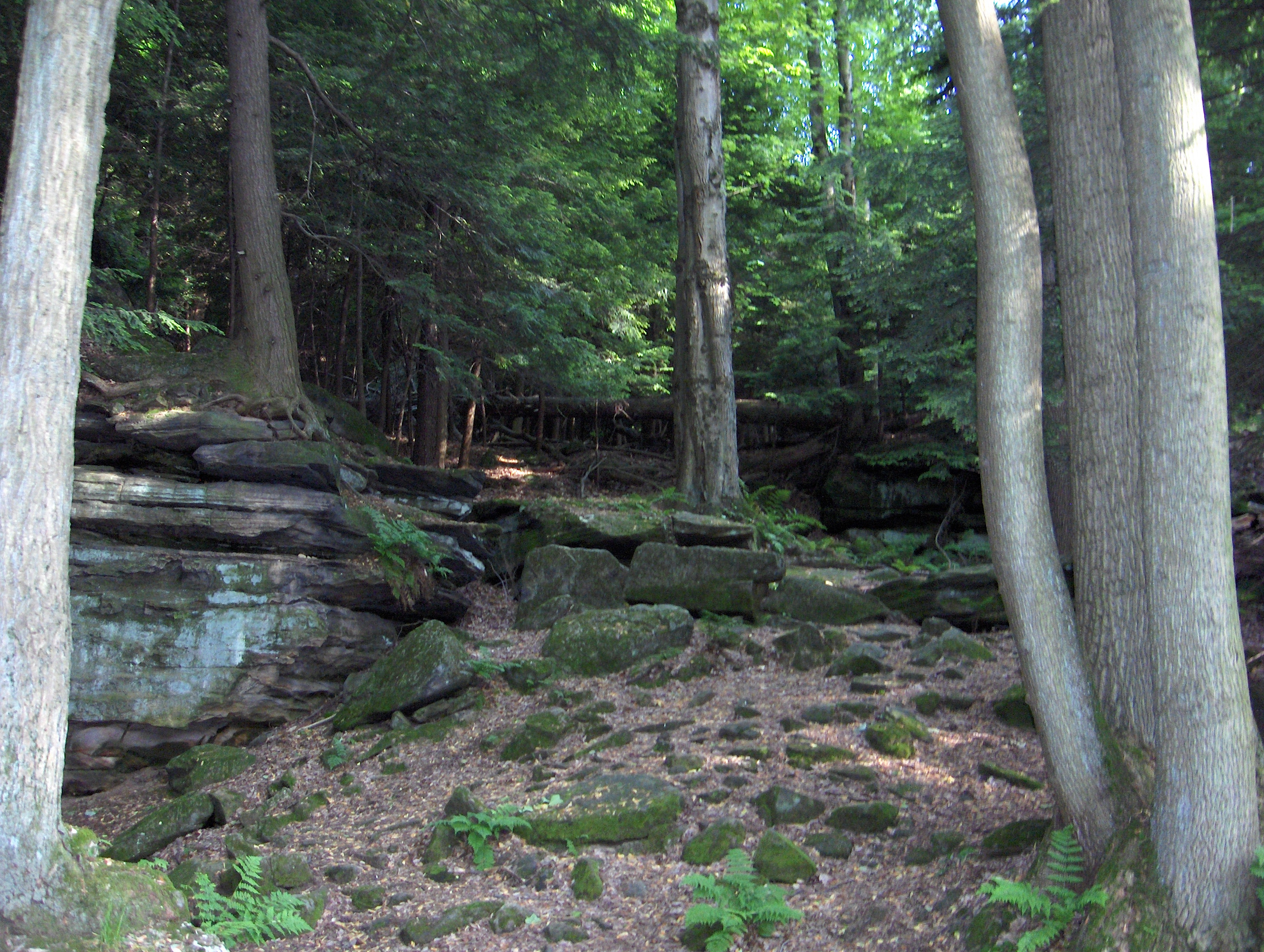 An example of stone formations found in Cuyahoga Valley National Park.